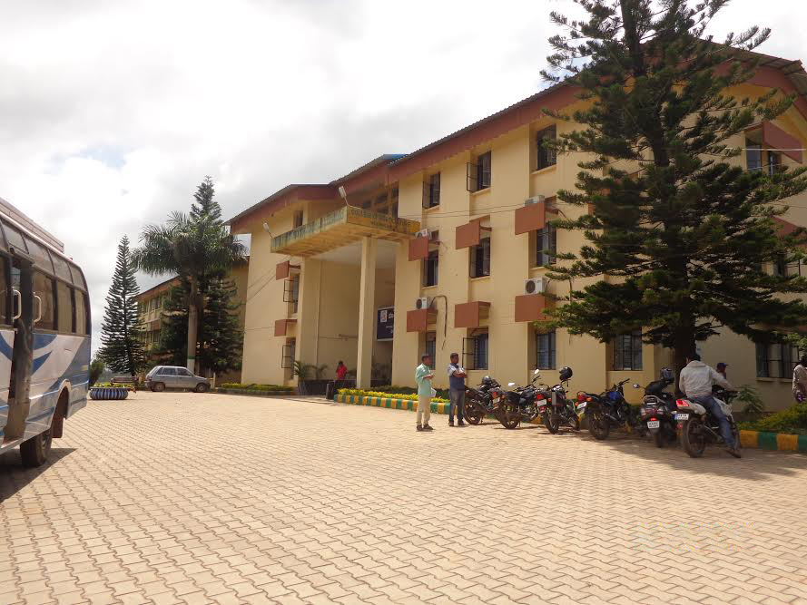 the main building of the college of horticulture mudigere